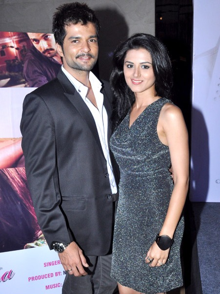 Ridhi Dogra and Raqesh Vashisth at the Launch of Javed Ali's album 'Yaara'